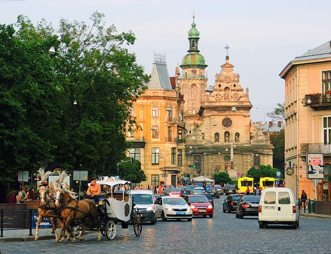 Lviv. Summer 2019. The Bernardine church and monastery in the city's Old Town